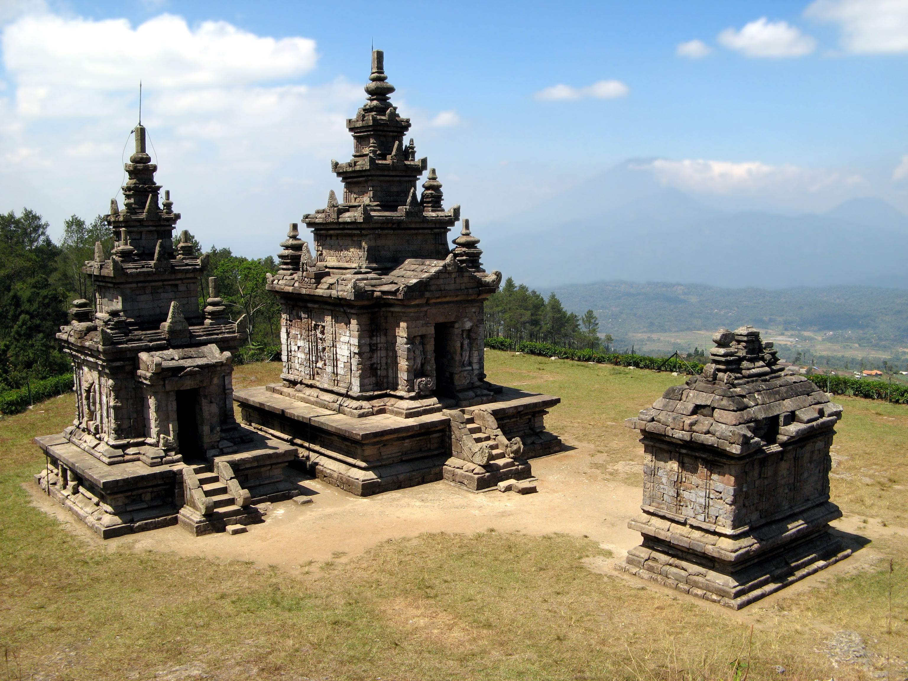 Gedong Songo III. This group of three temples includes a Nandi temple in the lower right, facing as usual its corresponding Shiva temple. The remaining temple is unpaired. The larger temple (photo center) carries a complete, although understandably rather worn, set of exterior sculptures in relief.